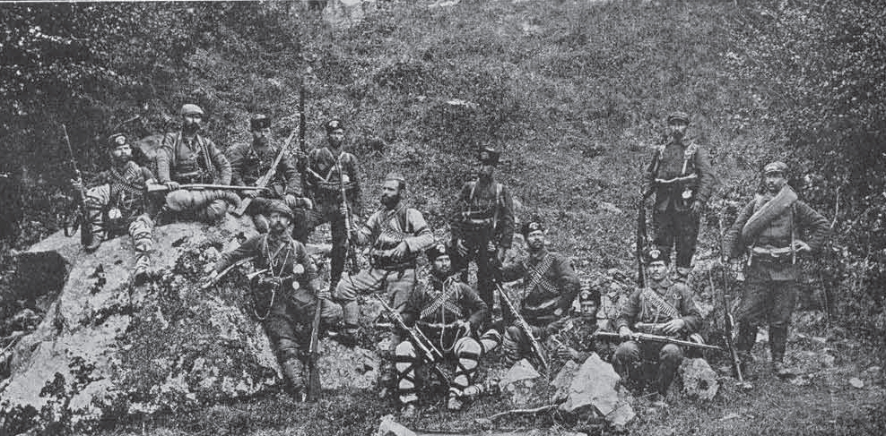 Cheta of Atanas Belchev - IMARO